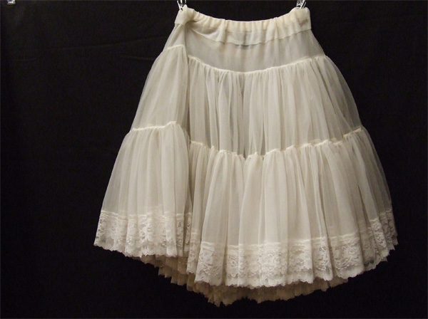 White nylon tiered petticoat, United States.